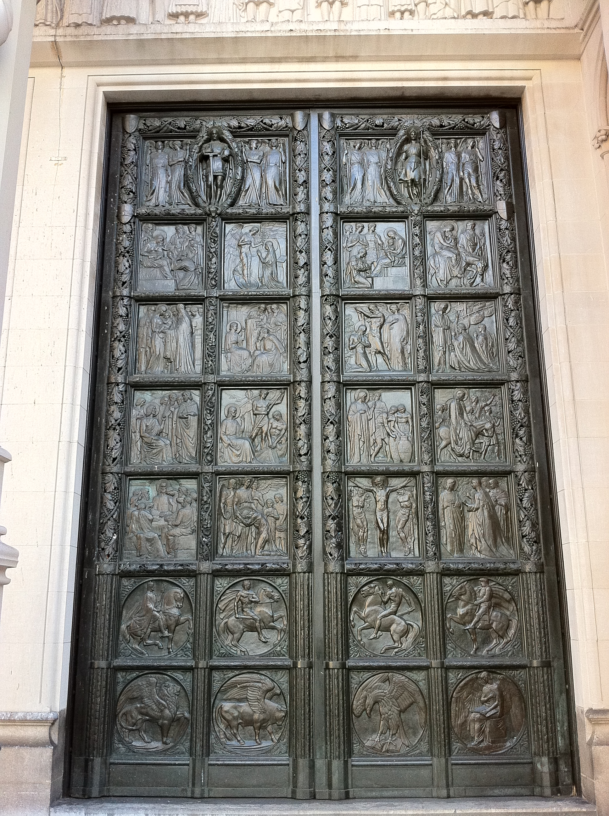 West end right hand bronze door at the Cathedral of St John the Divine, New York, created by the artist Henry Wilson between 1927 and 1931.